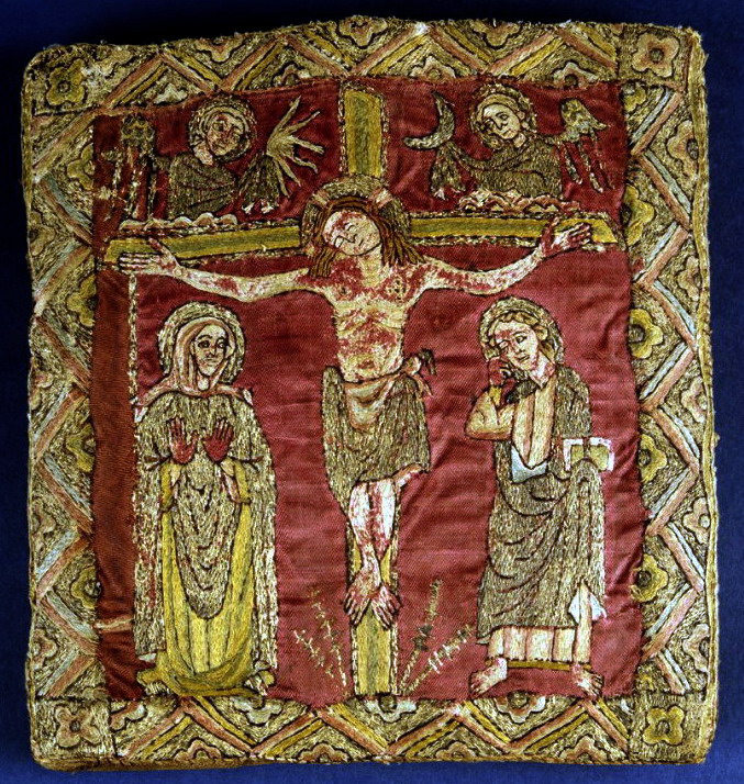 Reliquary purse (ca 1180) in the Treasury of Saint Servatius Basilica, Maastricht, Netherlands.